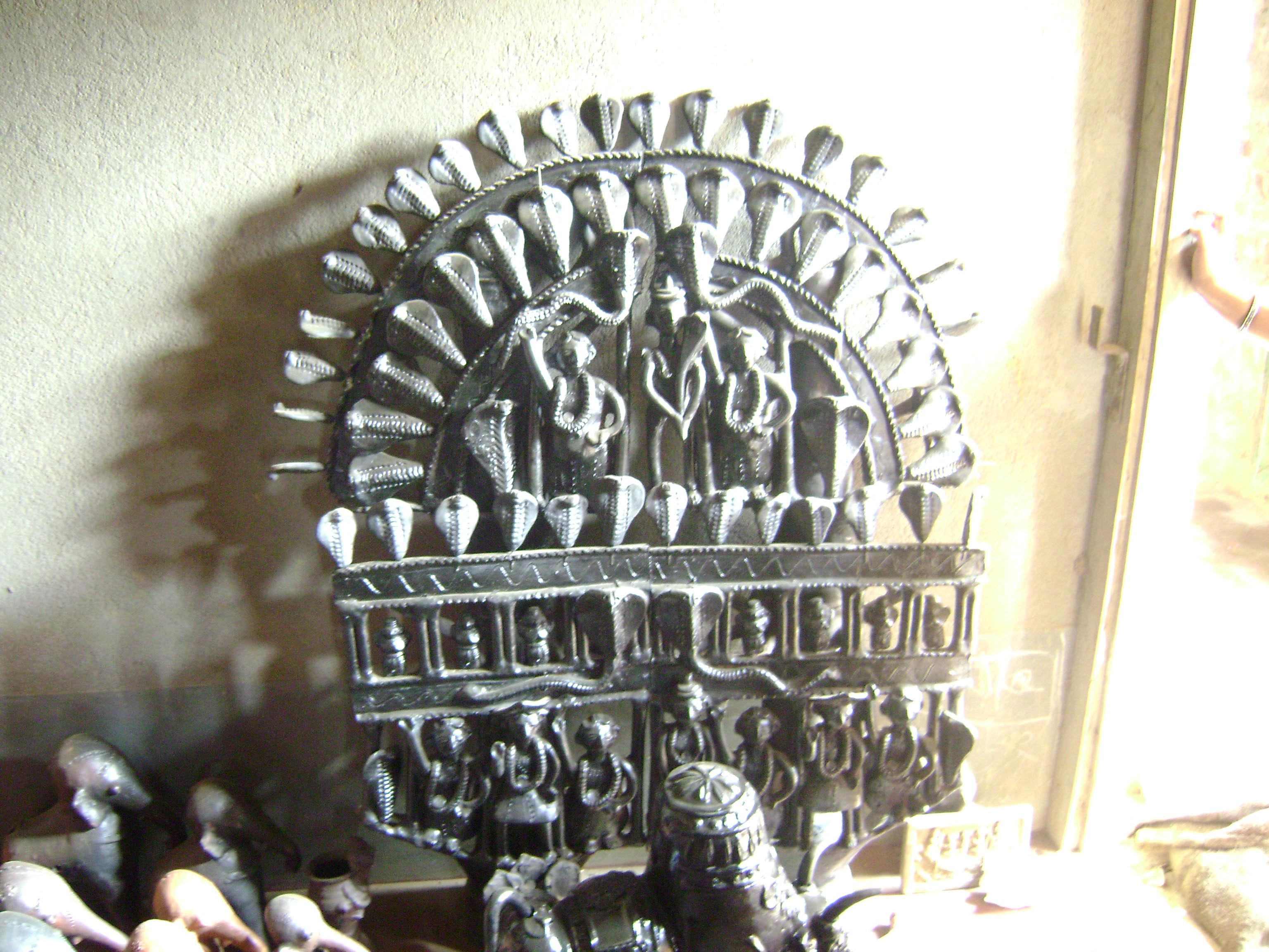 Terracotta art of Panchmura is under the Geographical Indications. Manasa chali is among the terracotta art of Panchmura